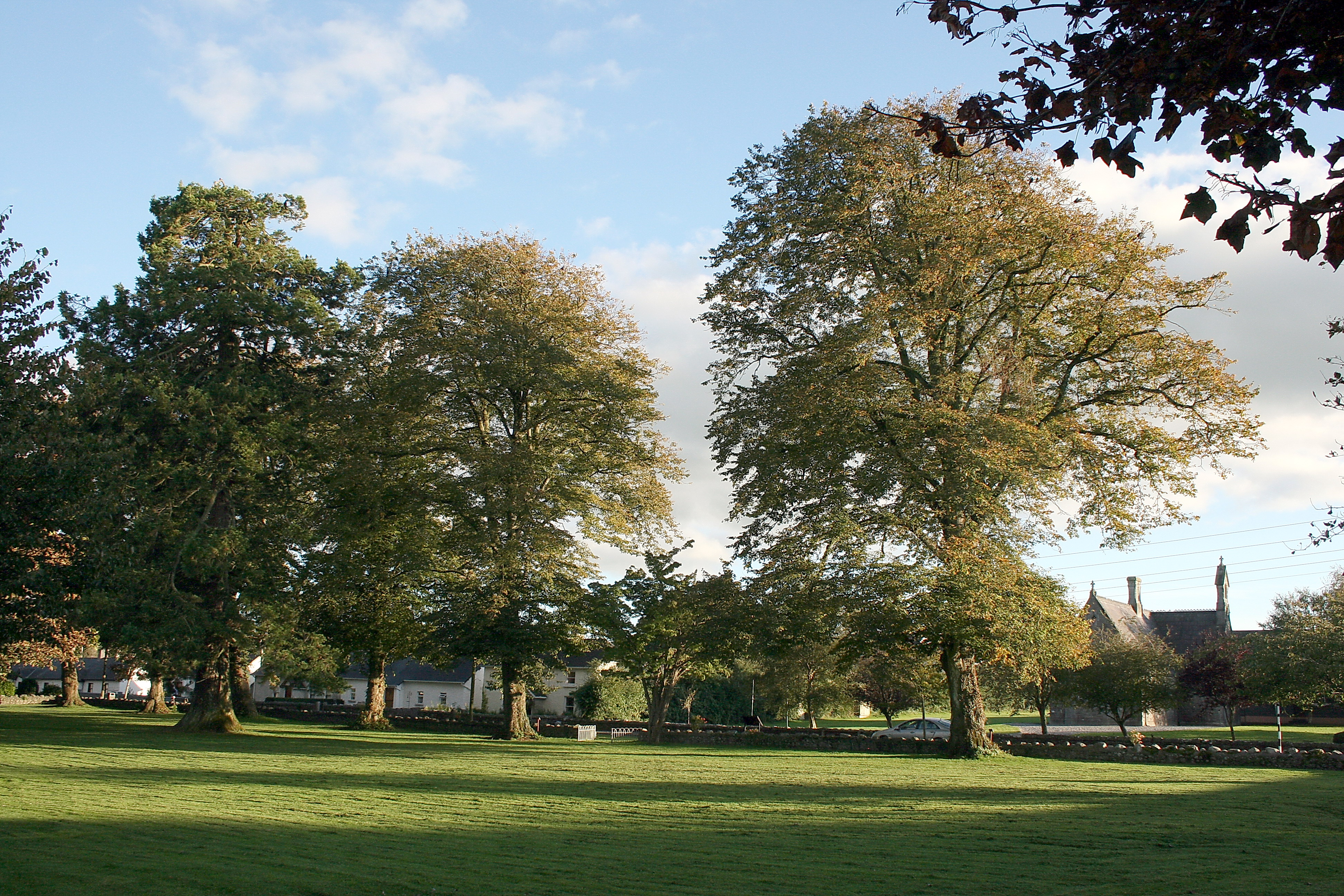 Geashill, County Offaly (2), near to Geashill, Curragh, Ballykean and Ballyduff, Offaly, Ireland. Village Green.